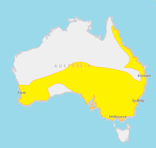 Distribution map